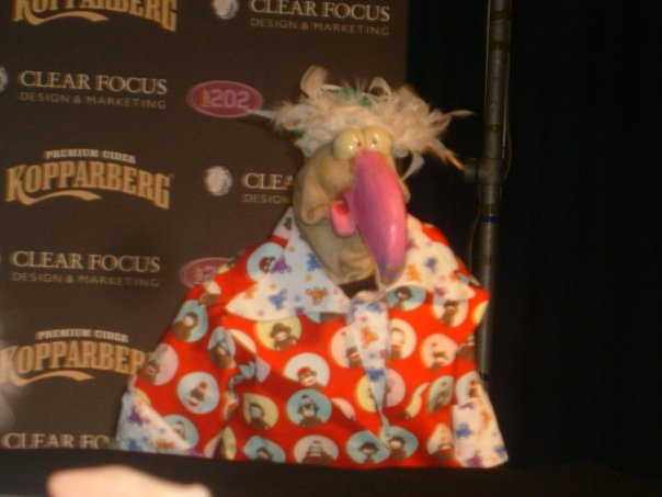 Dustin the Turkey, taken at Scala, London